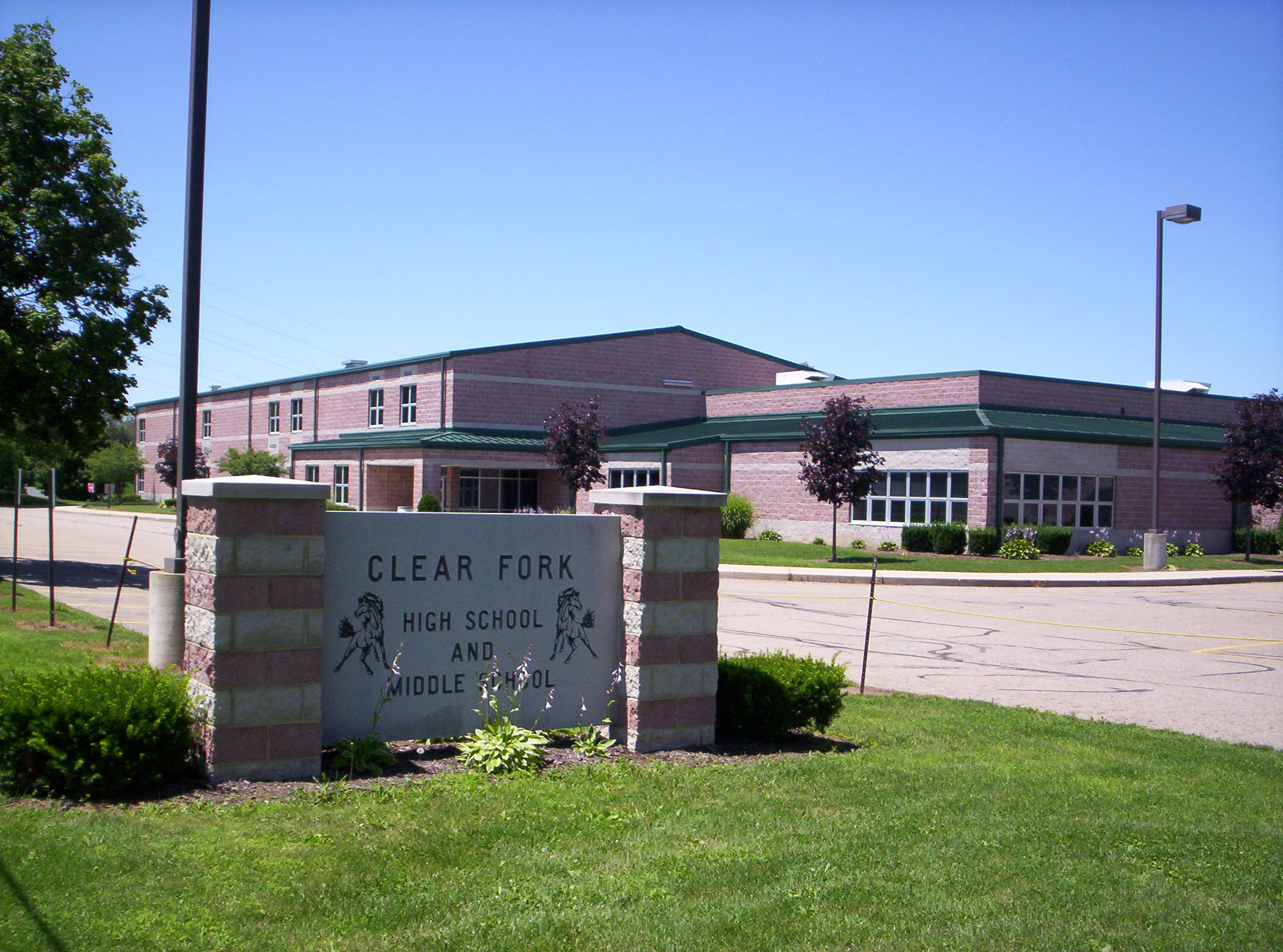 Clear Fork High School and Middle School near Bellville, Ohio.